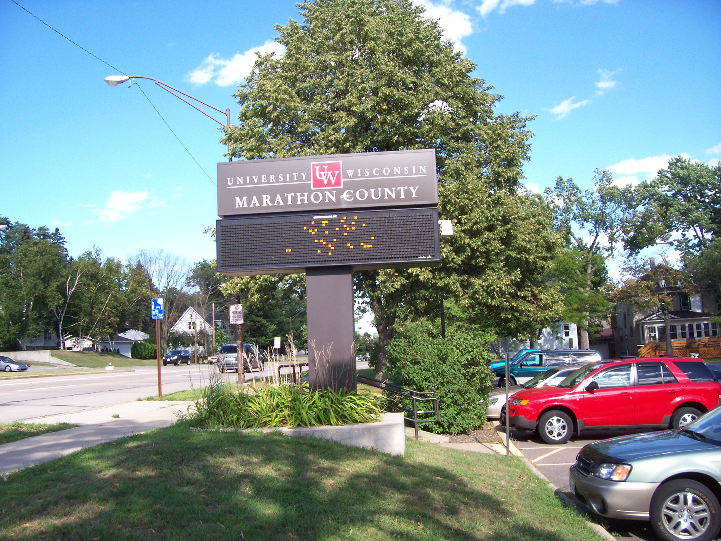 The sign at the entrance for the University of Wisconsin-Marathon County on Wisconsin Highway 52 in Wausau, Wisconsin, USA.